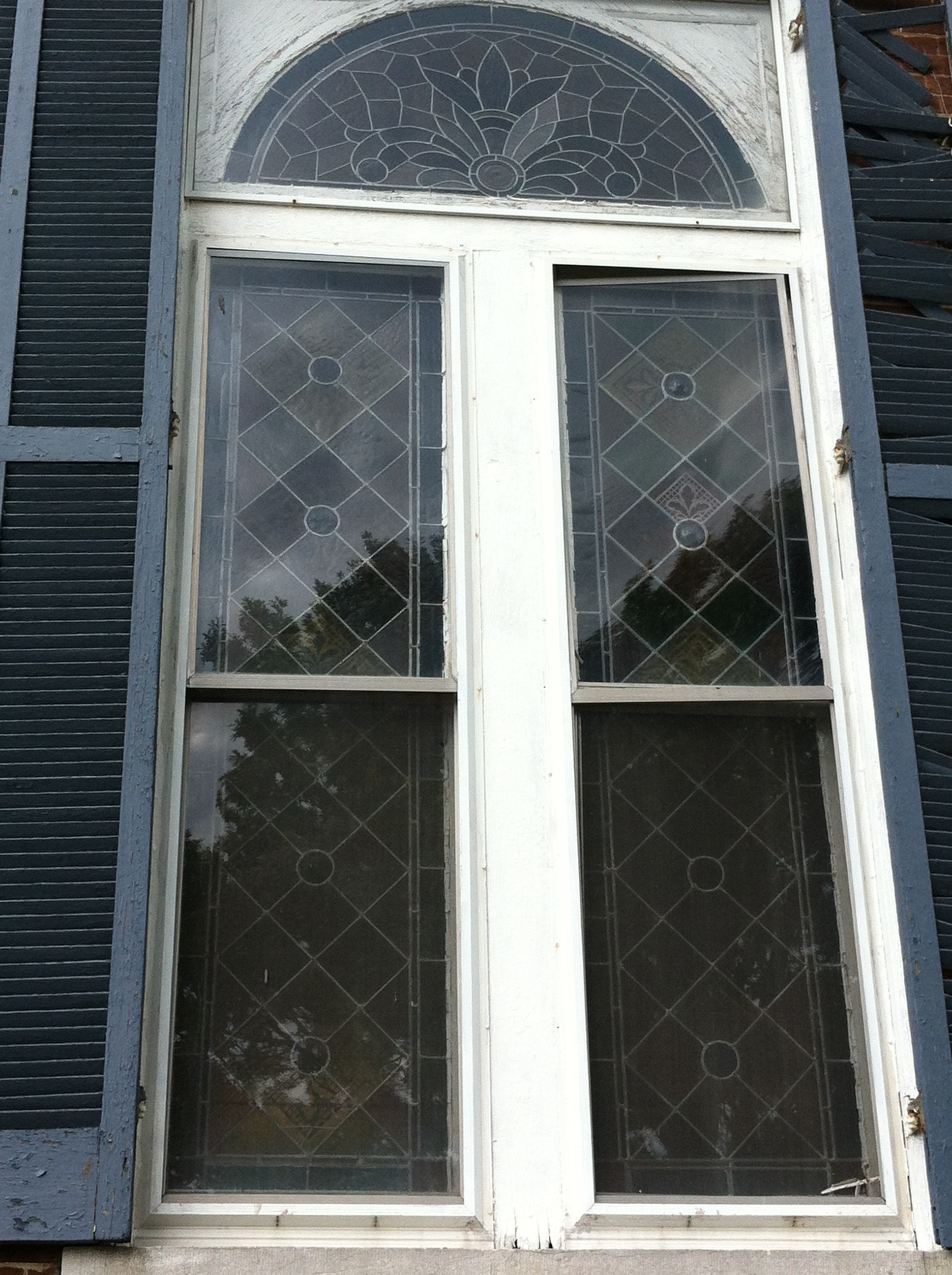 New Providence Presbyterian Church, 3 miles south of Salvisa on U.S. Route 127 Salvisa